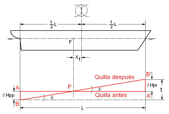 draft change